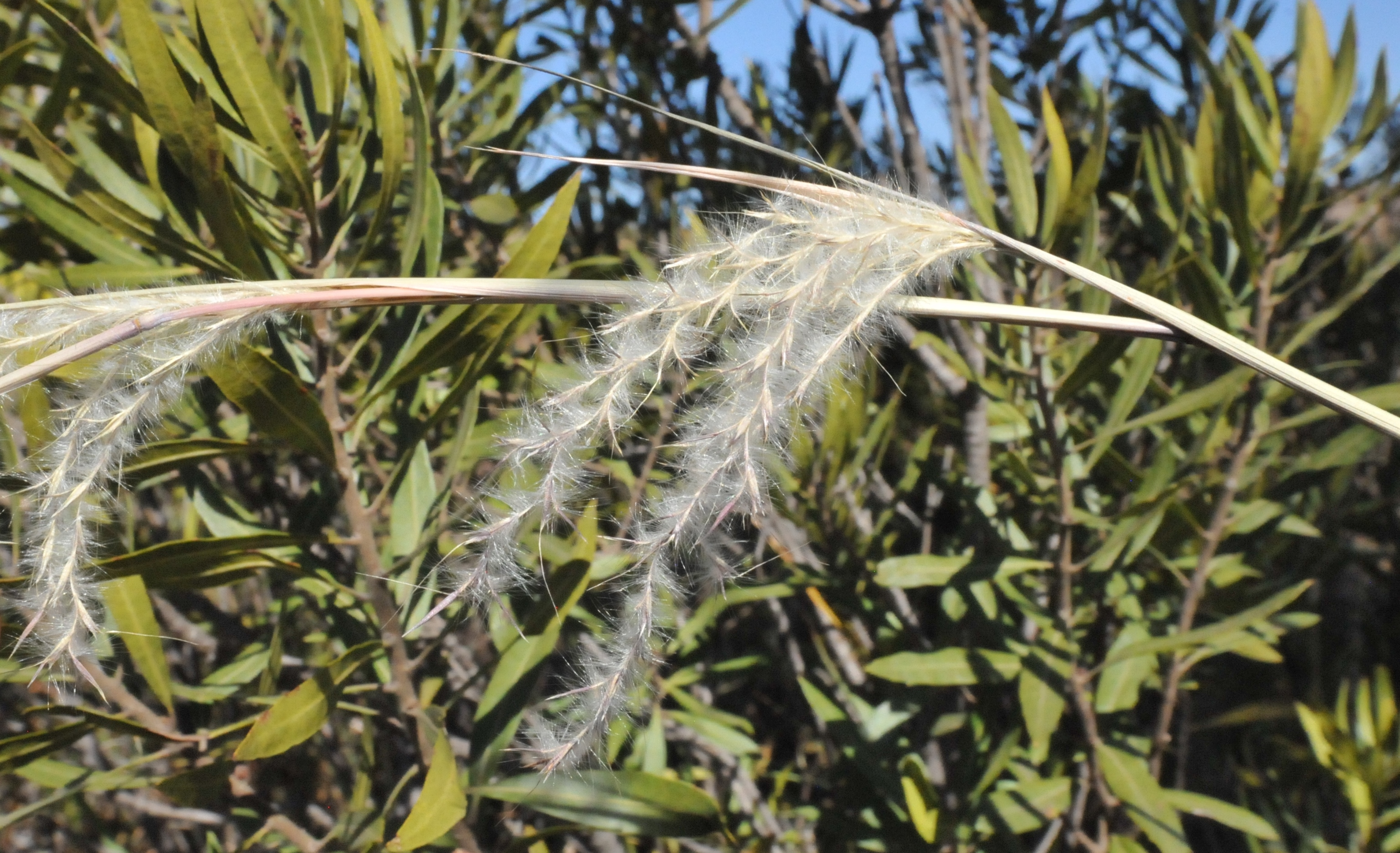 Inflorescence of Old man's beard grass at Spitskop, near Bronkhorstspruit